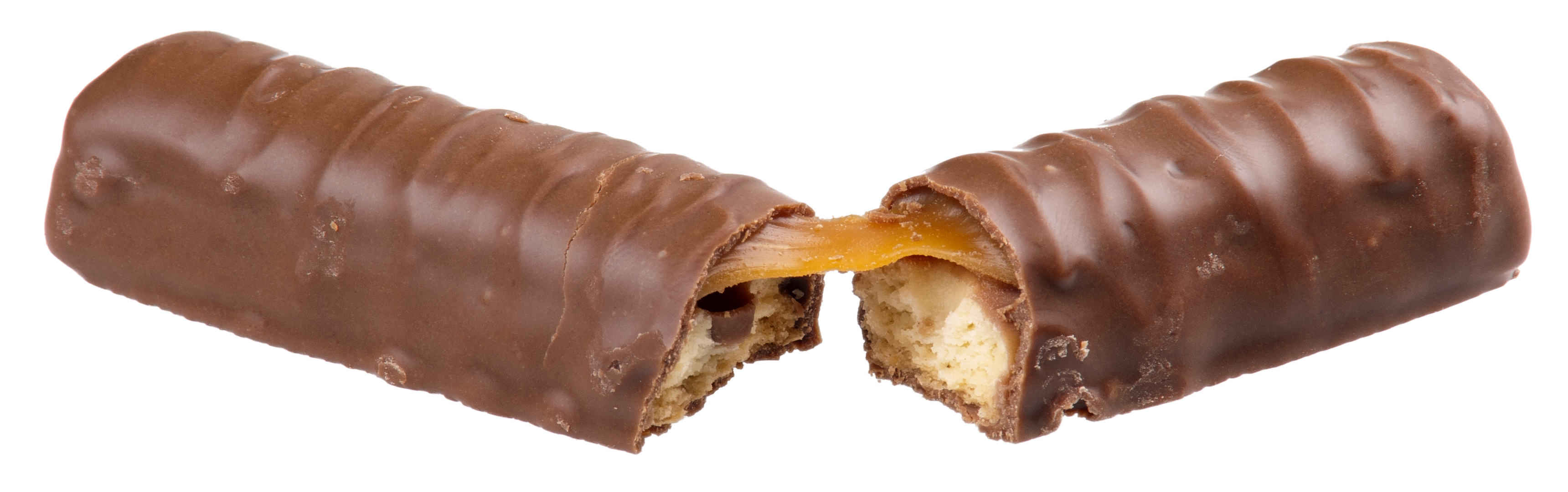 A Twix candy bar, broken in half.